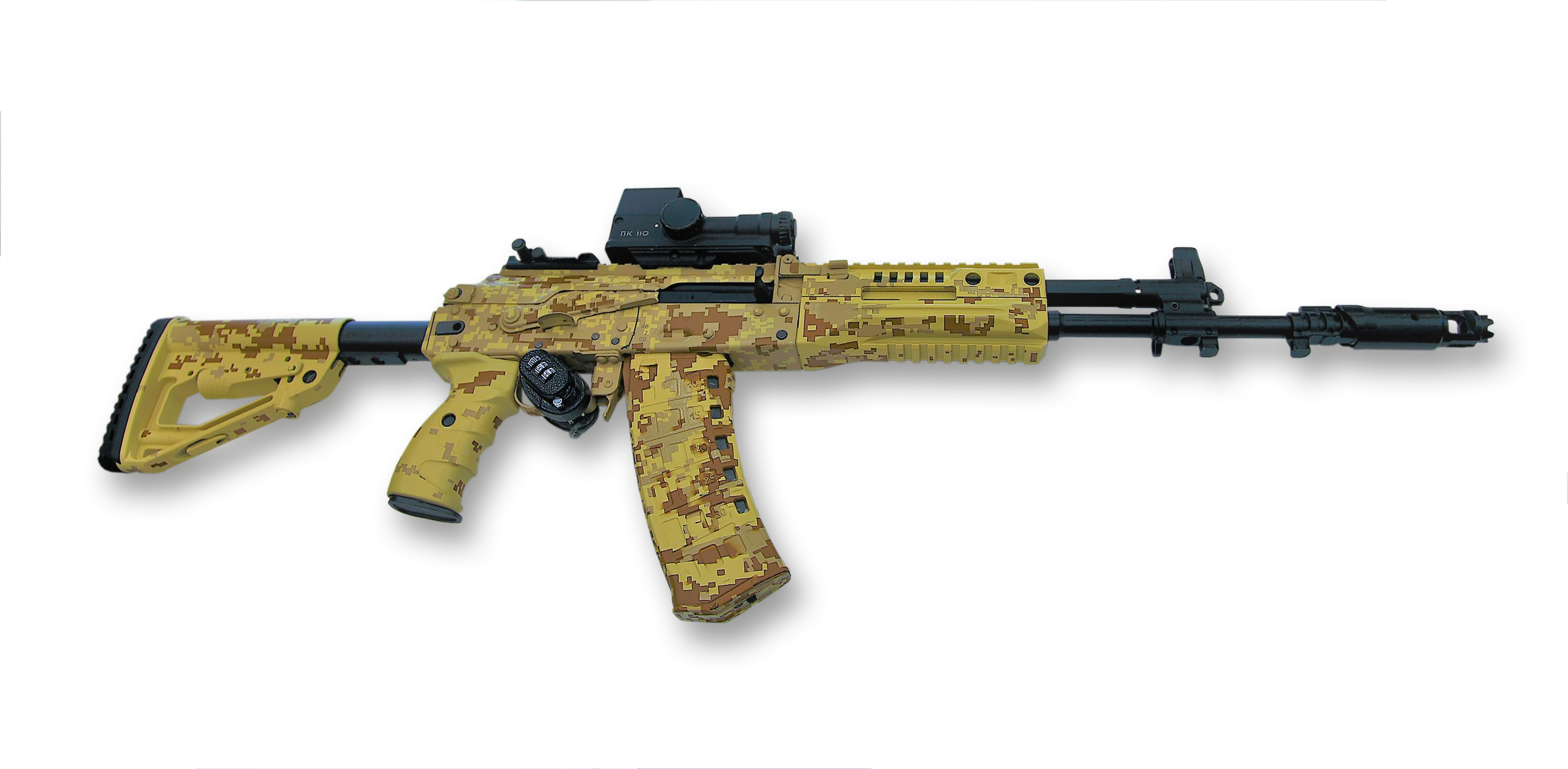 5,45mm AK-12 6P70 assault rifle